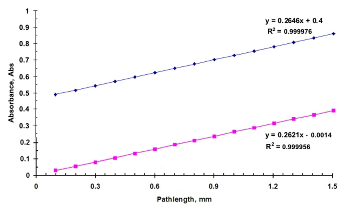 example of slope spectroscopy baseline plot vs. no baseline